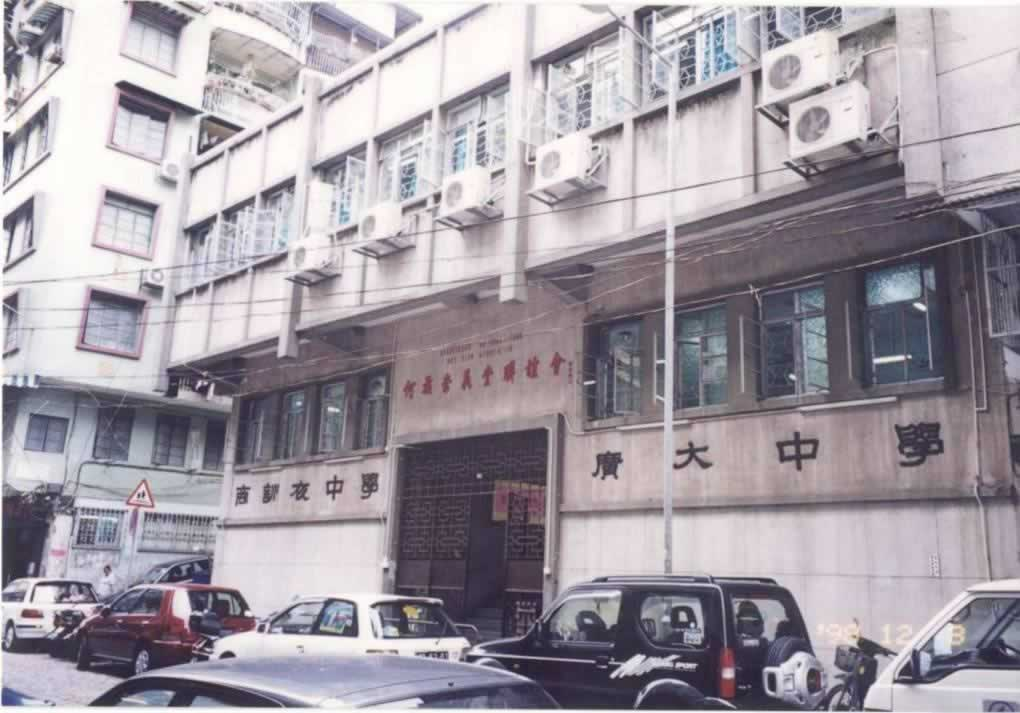 The former location of Kwong Tai (Guang Da) Middle School Macau.